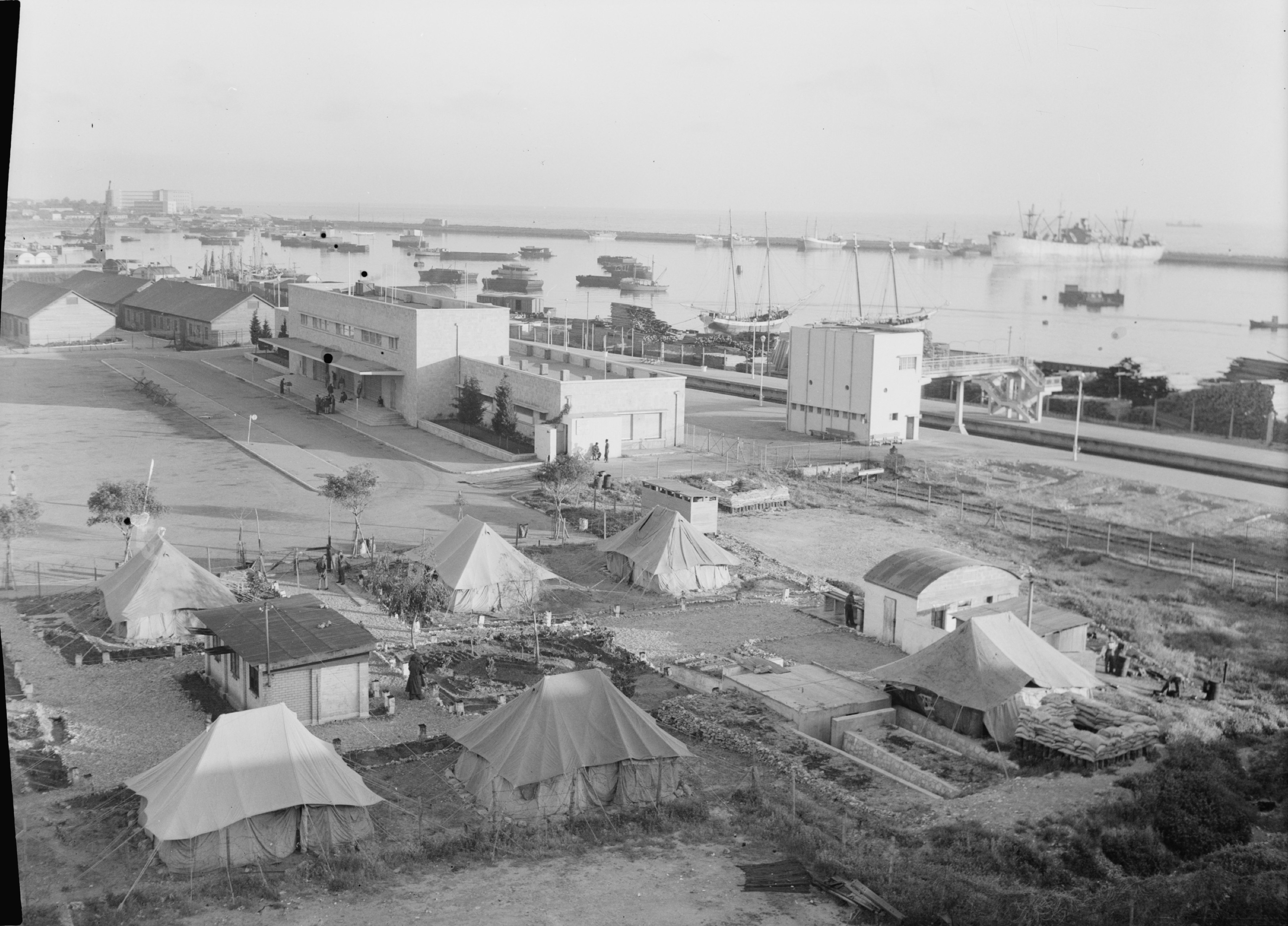 Title: Haifa, new R.R. [i.e., railroad] station in 1946 Abstract/medium: G. Eric and Edith Matson Photograph Collection Physical description: 1 negative